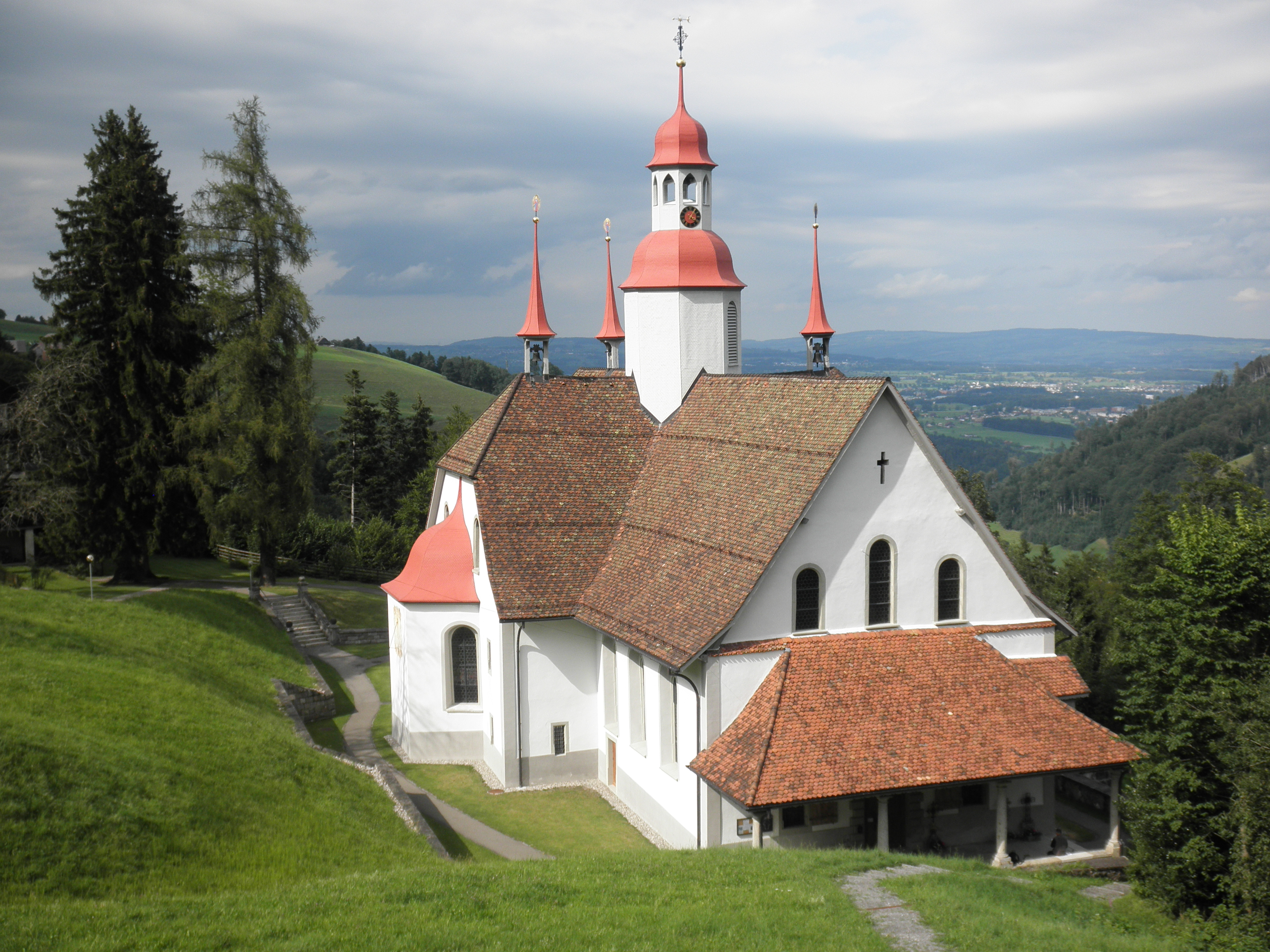 Pilgrimage church "Unserer Lieben Frau" in Hergiswald, canton Luzern, Switzerland